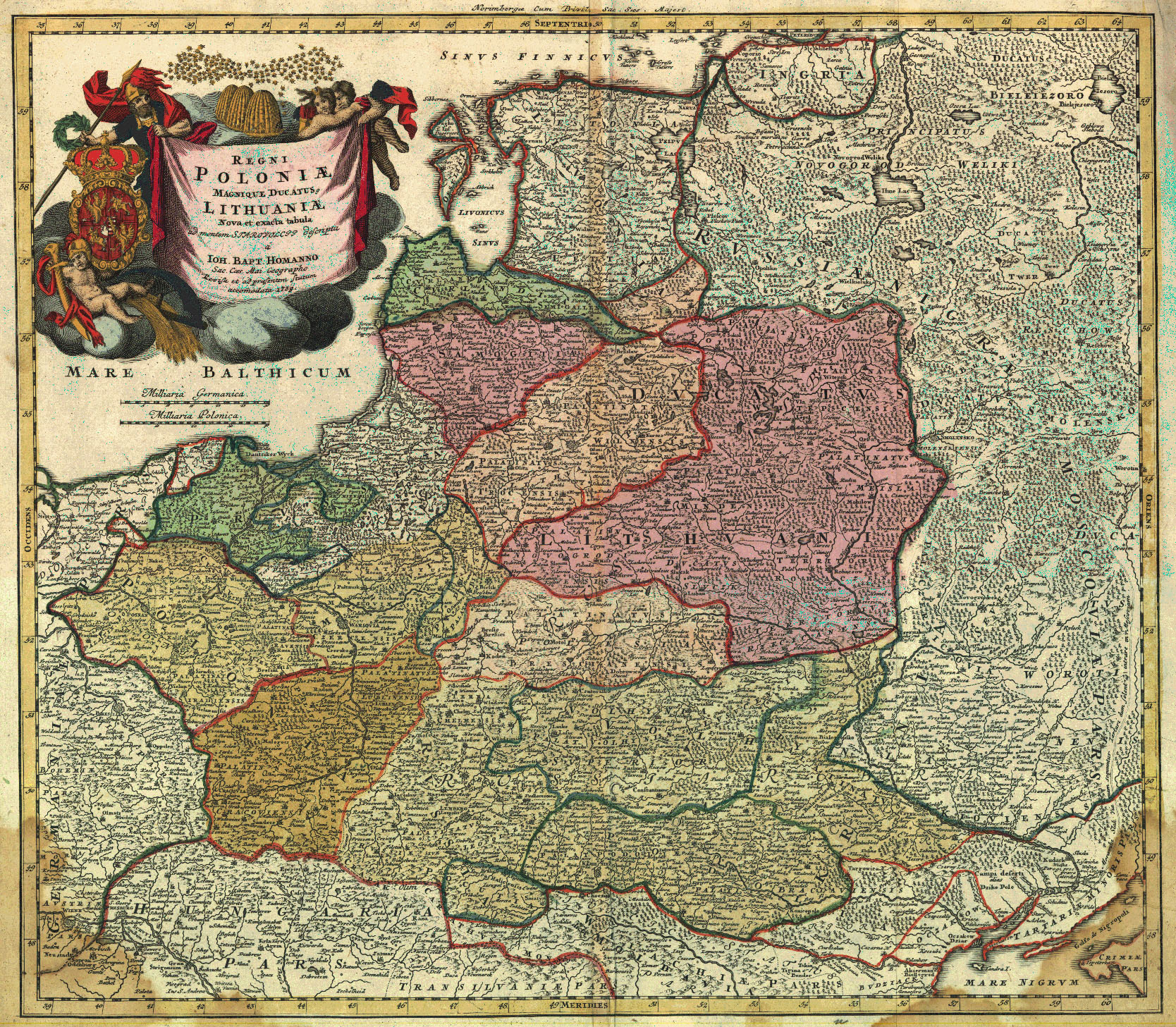 Poland, first half of 18th century, probably 1739